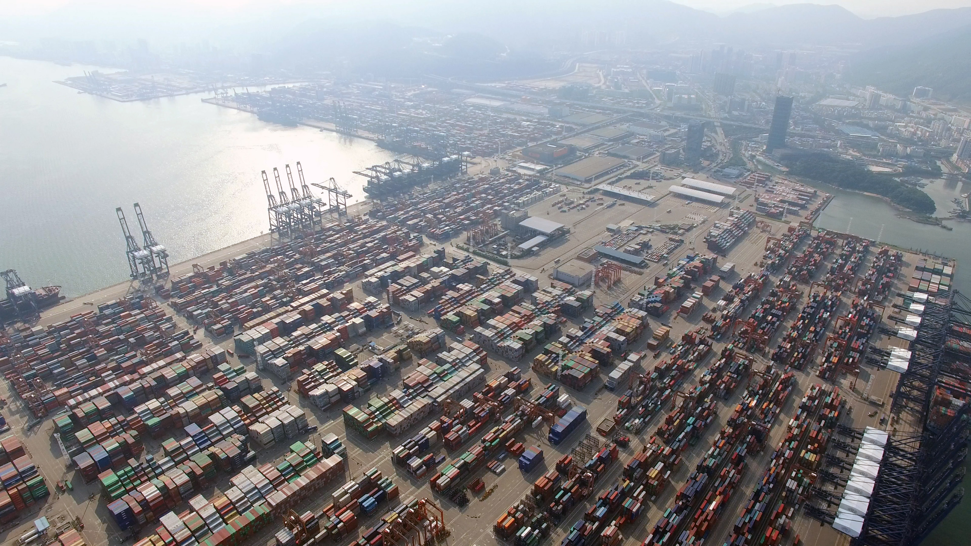 Yantian-port from above